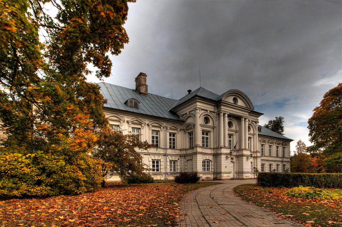 Zalenieki manor house